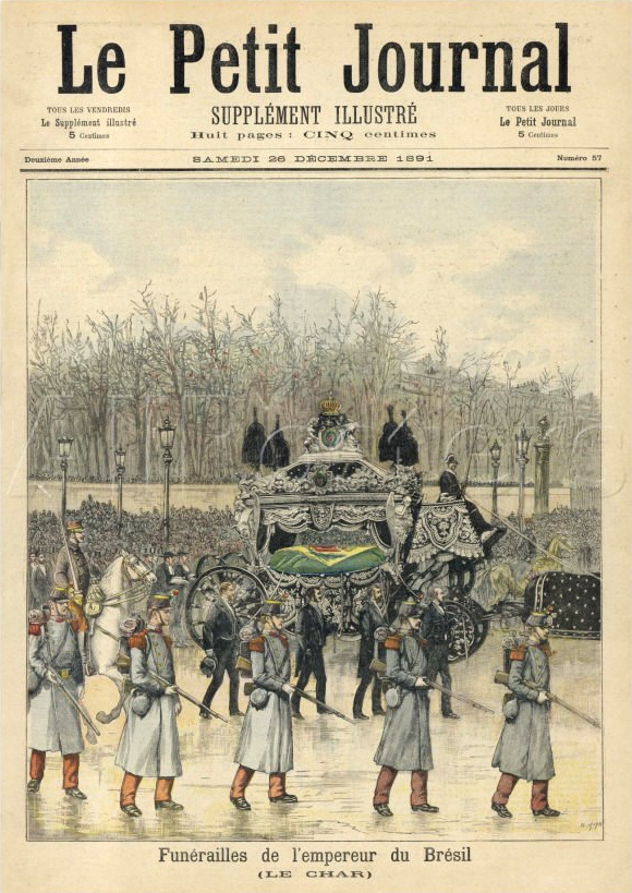 Cover of the Le Petit Journal depicting the funeral of D. Pedro II of Brazil.